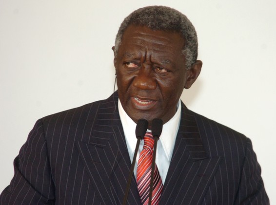 Source: Roosewelt Pinheiro/ABr, July 10, 2006 Photograph copied from the website of Agência Brasil (ABr), which states: The Agência Brasil makes images and photos available free of charge. To comply with existing law, we kindly request our users to list the credits as in the example: photographer's name/ABr. — A Agência Brasil disponibiliza, gratuitamente, imagens e fotos. Para cumprir a legislação em vigor, solicitamos aos nossos usuários a gentileza de registrar os créditos como no exemplo: nome do fotógrafo/ABr. Agência Brasil (ABr) Main Page (Portuguese)